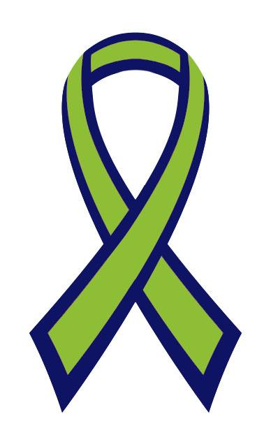 This ribbon represents Trichotillomania and other Body Focused Repetitive Behaviors. Concept for the ribbon was started by Jenne Schrader. Colors were voted on by the Trichotillomania Facebook community, and made official by Trichotillomania Learning Center in August of 2013